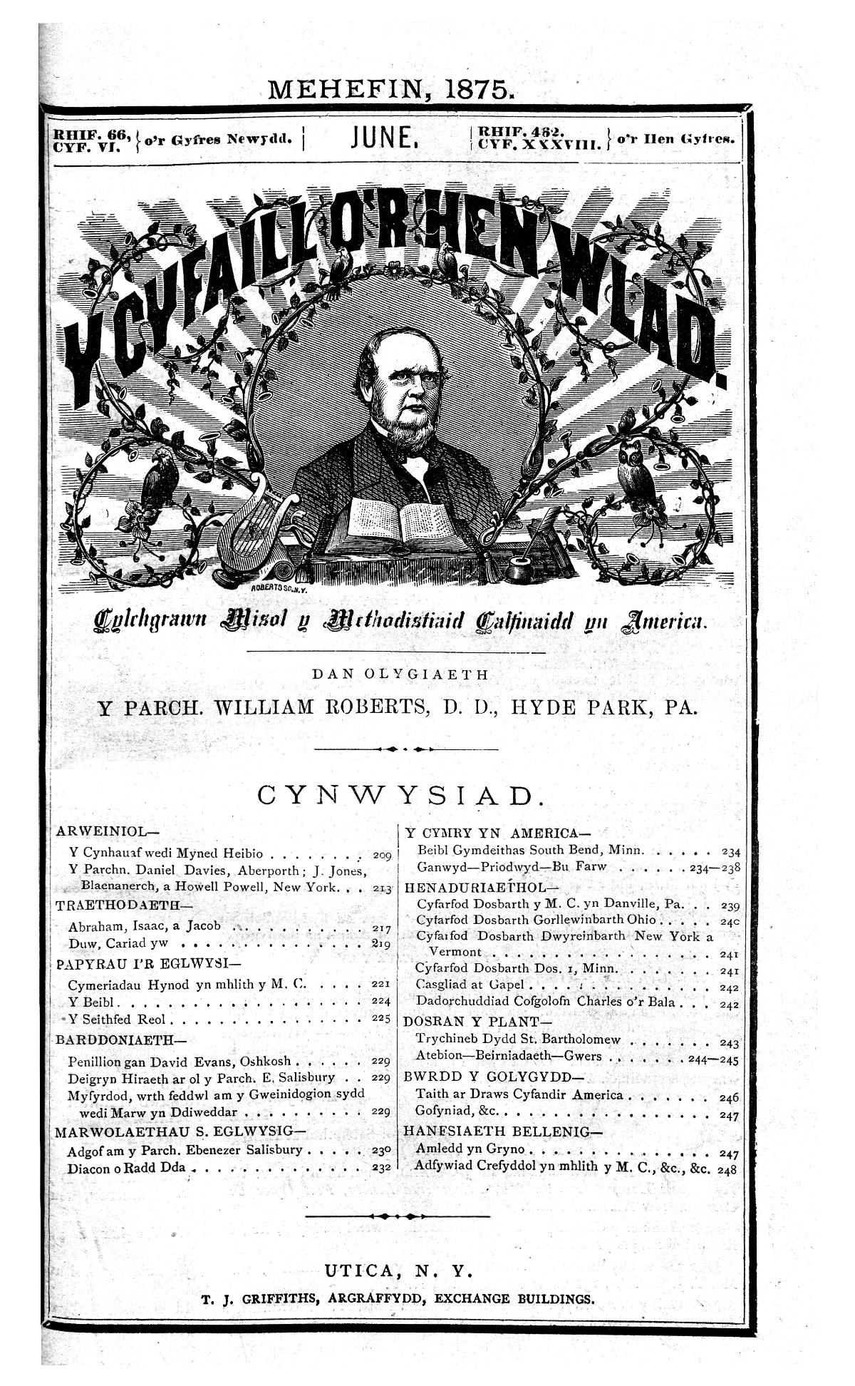 A monthly religious and literary periodical serving the Welsh Calvinistic Methodists in America. The periodical's main contents were religious and educational articles alongside poetry. The journal was was edited by William Rowlands (1807-1866). Associated titles: Y Cyfaill o'r Hen Wlad (1848); Y Cyfaill (1844; 1881).